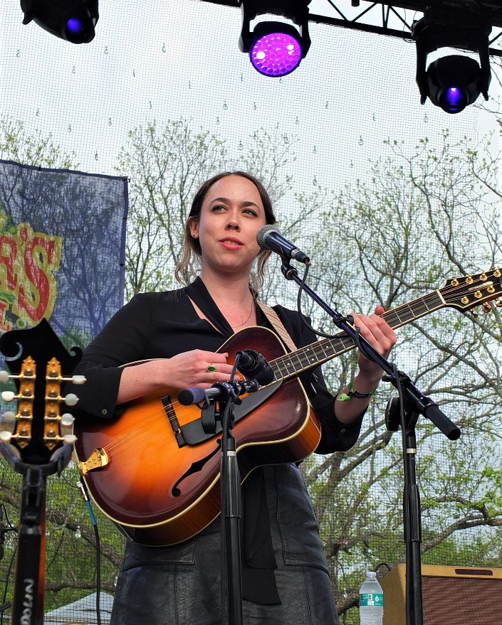 Sarah Jarosz performing at Old Settler's Music Festival 2016 in Driftwood, TX. Photo - Ron Baker.